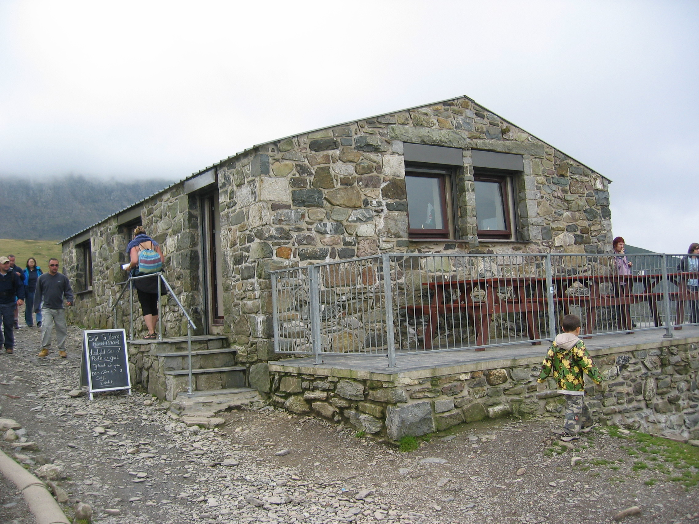 This is the Halfway House Cafe on the Llanberis Path, I created this picture myself (Tickopa) using my Canon IXUS 430.